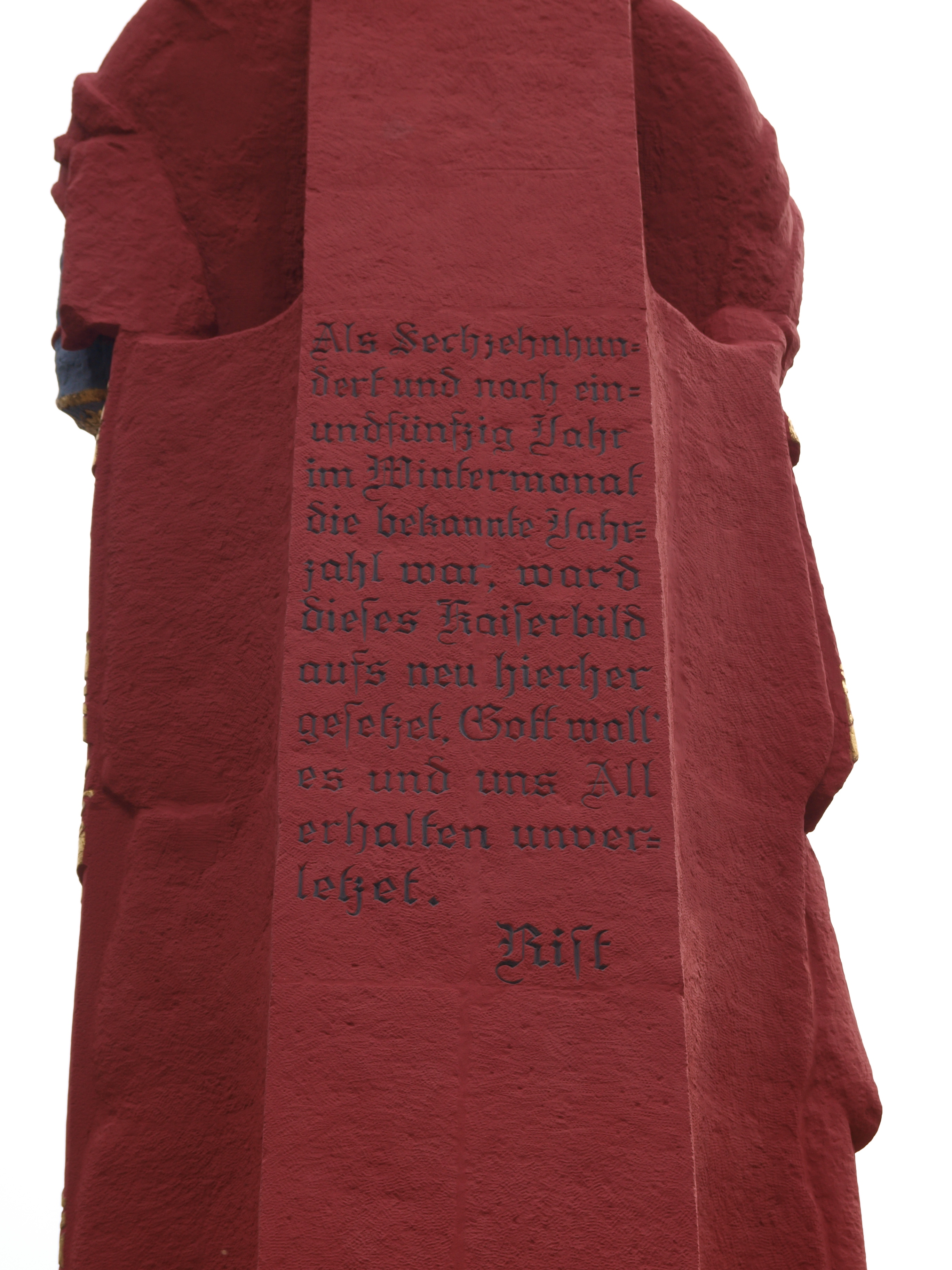 Back side of statue of Roland of Wedel (Holstein), Kreis Pinneberg, Germany after finished restorration on 19 June 2012, in the earliest known colour design from 1907/1986. Cultural heritage monument. The inscription is saying: In 1651 in winter month [November] of the known year, this eperors statue has been re errected here again, may God will preserve it for us all. Rist.